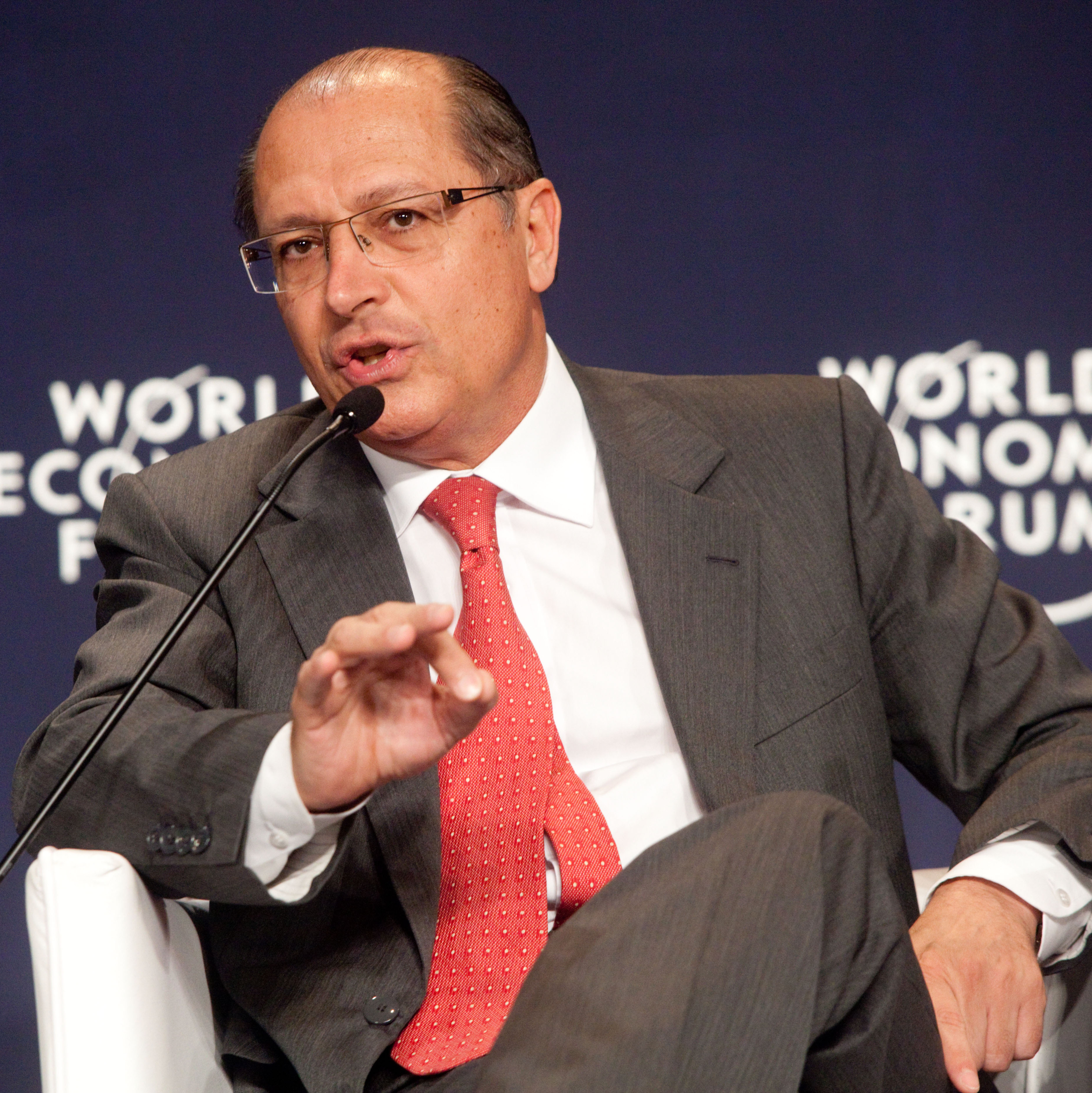 RIO DE JANEIRO/BRAZIL, 29APR11 - Geraldo Alckmin Filho, Governor of São Paulo, captured during the World Economic Forum on Latin America in Rio de Janeiro, Brazil, April 29, 2011. Copyright World Economic Forum ( by Alexandre Campbell